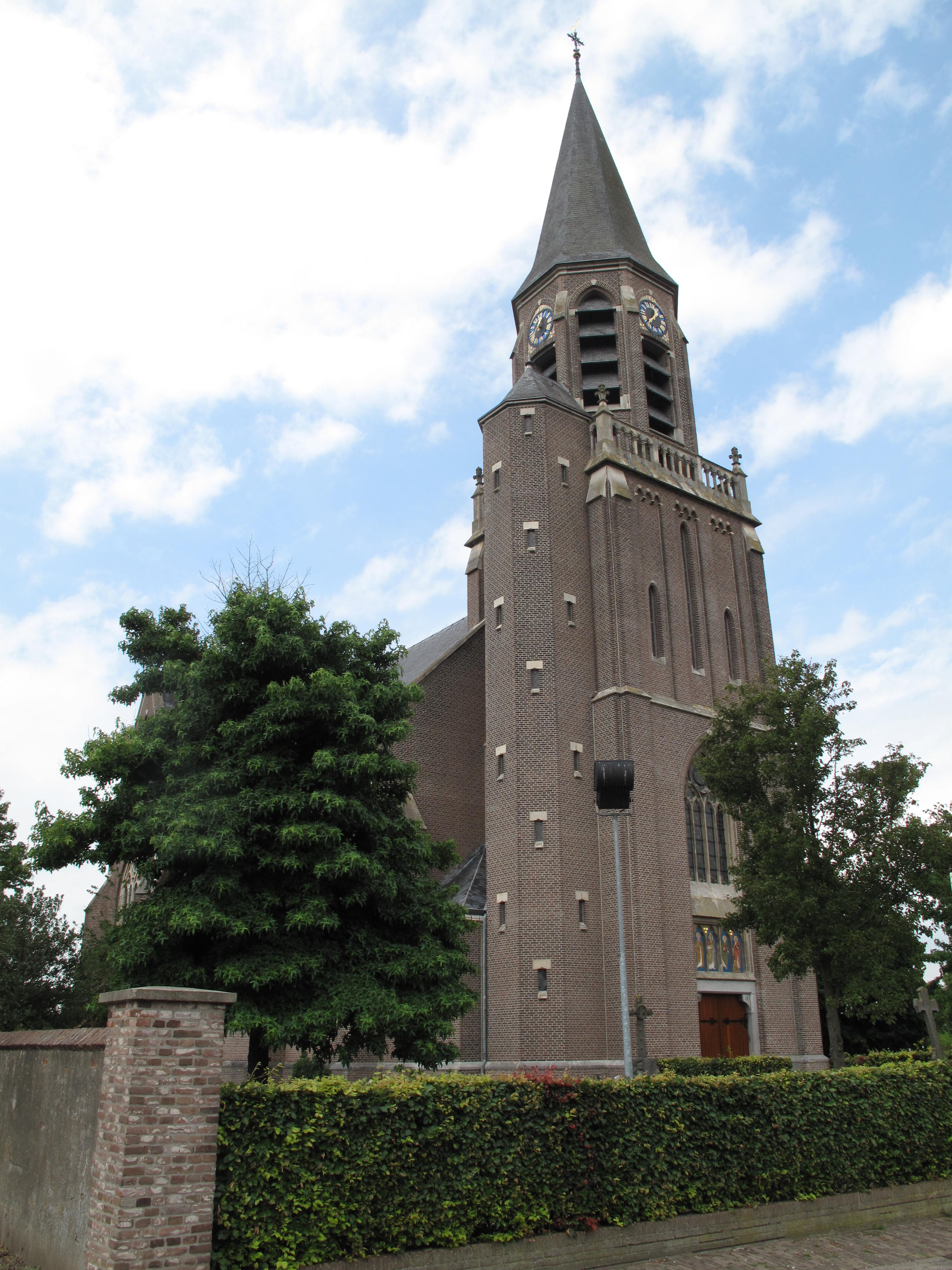 Puiflijk, church